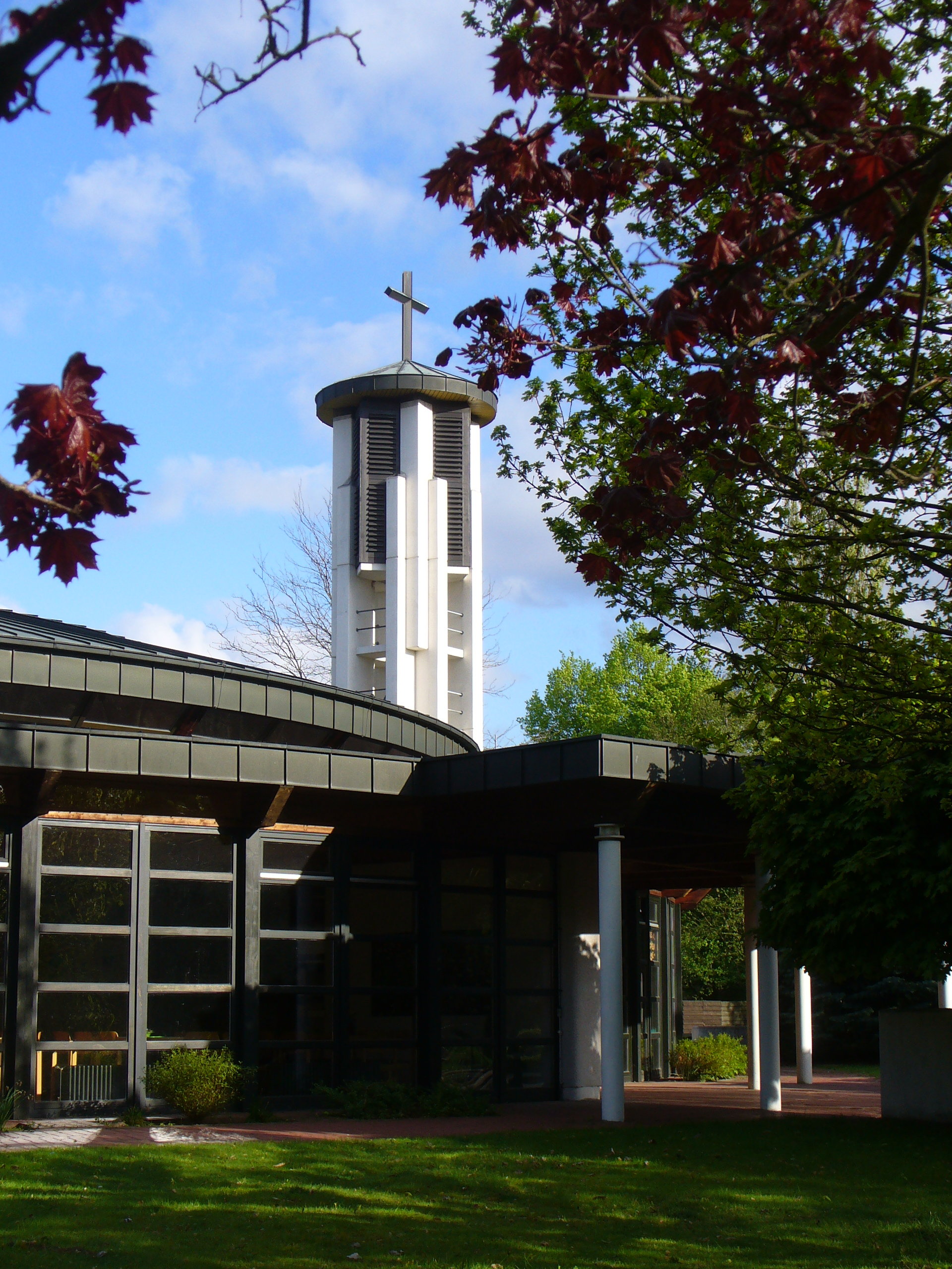 View on the church of St. Thomas (Braunschweig)